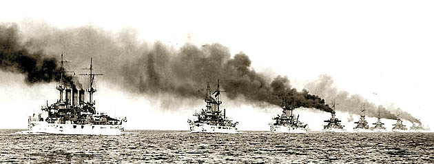 Adapted from picture source Wiki Commons: File:Us-atlantic-fleet-1907.jpg